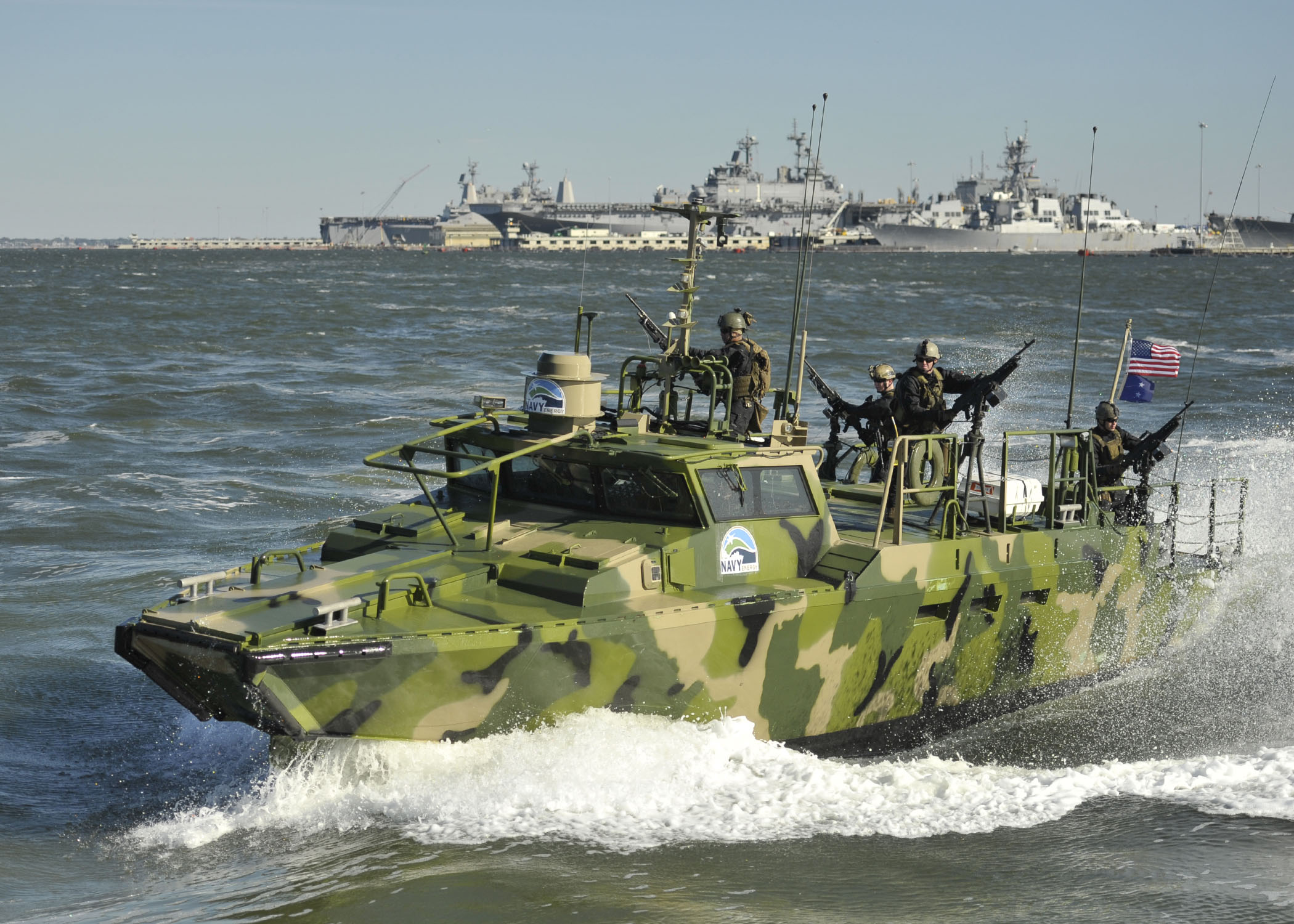 NORFOLK (Oct. 22, 2010) Sailors assigned to Riverine Group 1 conduct maneuvers aboard Riverine Command Boat (Experimental) (RCB-X) at Naval Station Norfolk. The RCB-X is powered by an alternative fuel blend of 50 percent algae-based and 50 percent NATO F-76 fuels to support the secretary of the Navy's efforts to reduce total energy consumption on naval ships. (U.S. Navy photo by Mass Communication Specialist 2nd Class Gregory N. Juday/Released)